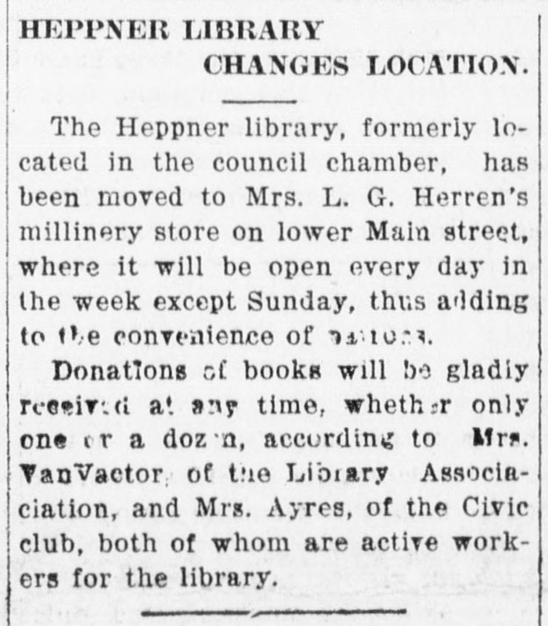 Notification of the relocation of the Heppner library in Heppner, Oregon.